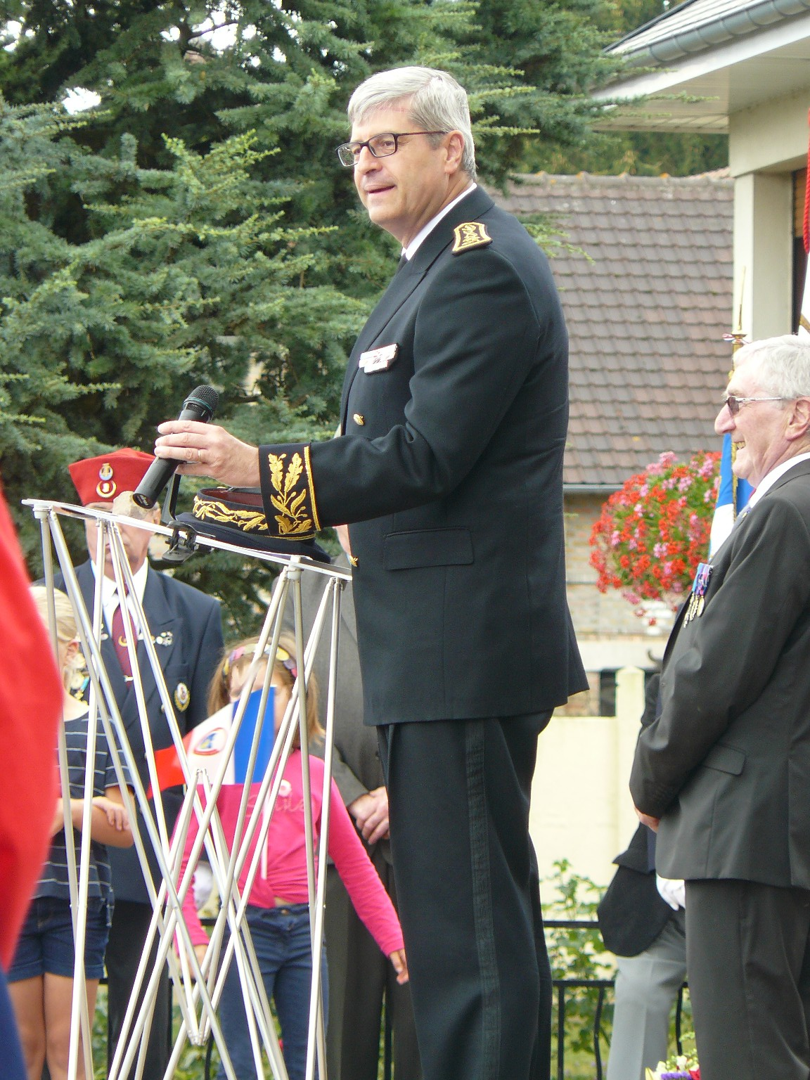 Marc Del Grande, current Prefect of French Guinea, speaking at the Inauguration of the 4th mixed Regiment of Zouaves and Tirailleurs in Pas-de-Calais.